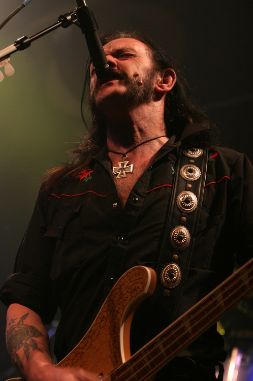 Lemmy Live at Reds, Edmonton, May, 2005